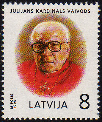 Postage stamp issued by Latvia 1993 depicting Cardinal Julijans Vaivods.